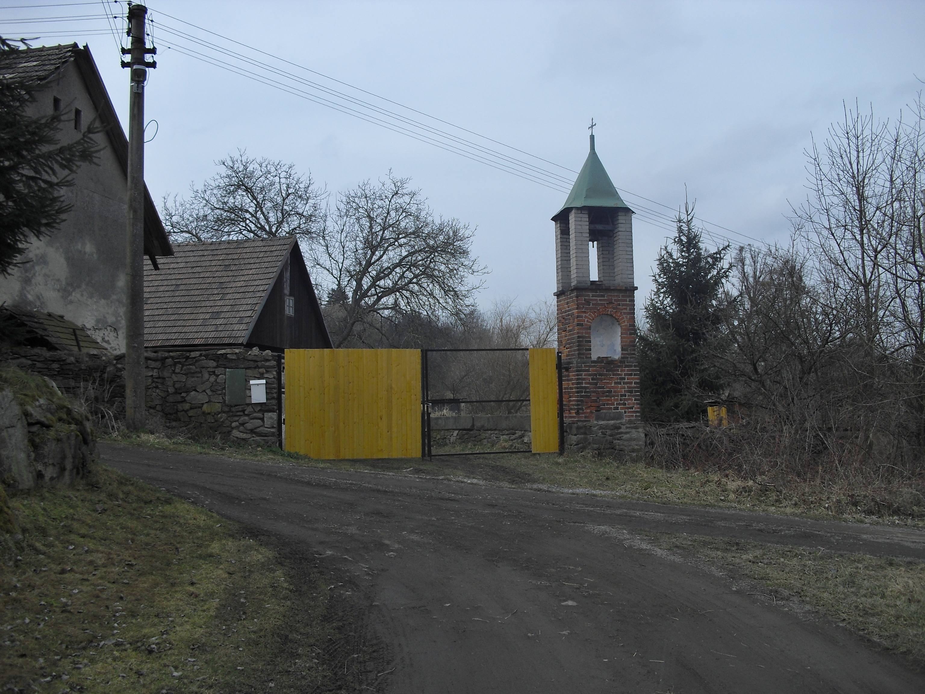 Votice, Benešov District, Czech Republic, part Košovice.